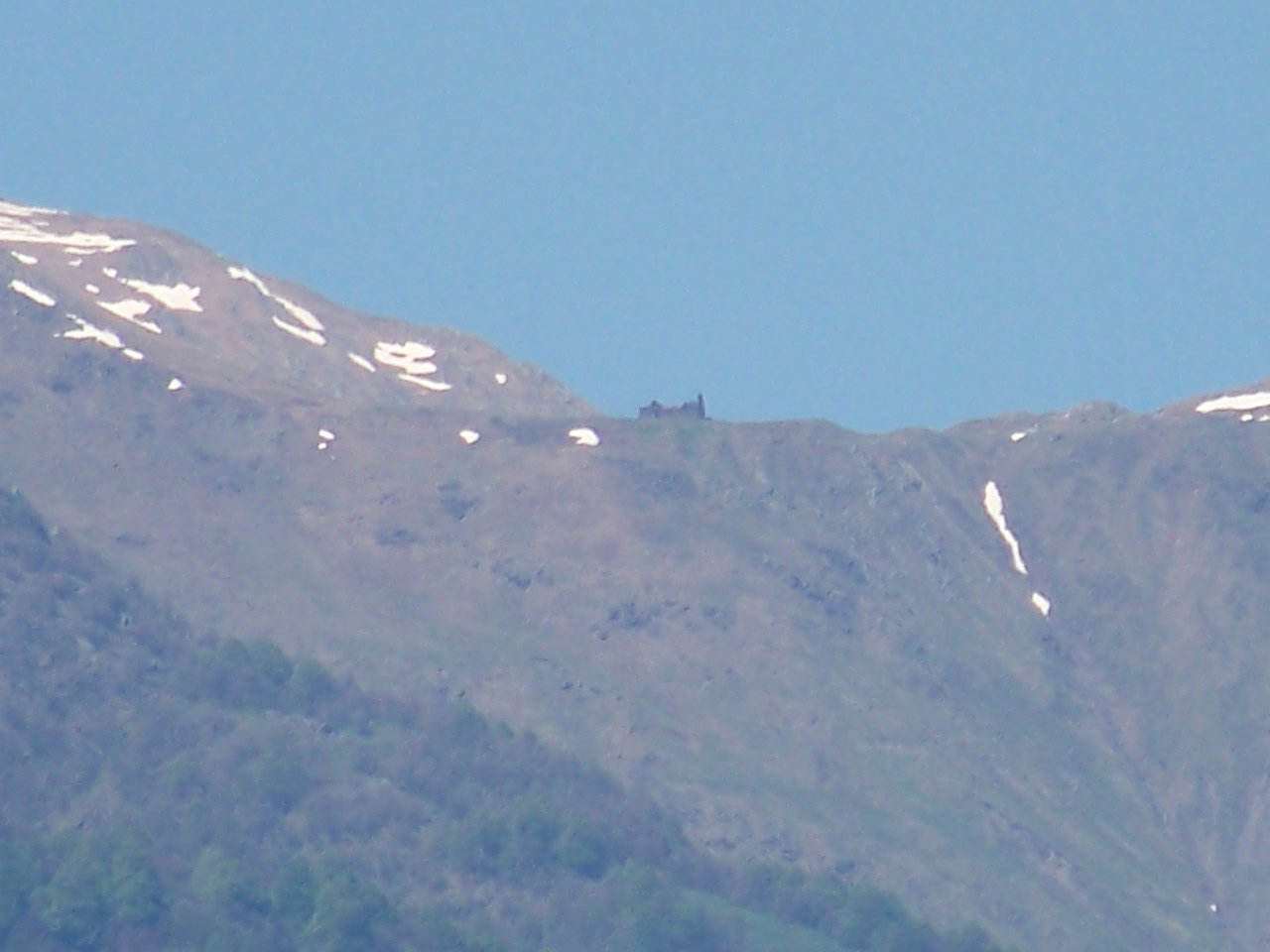 Kadori Fortress